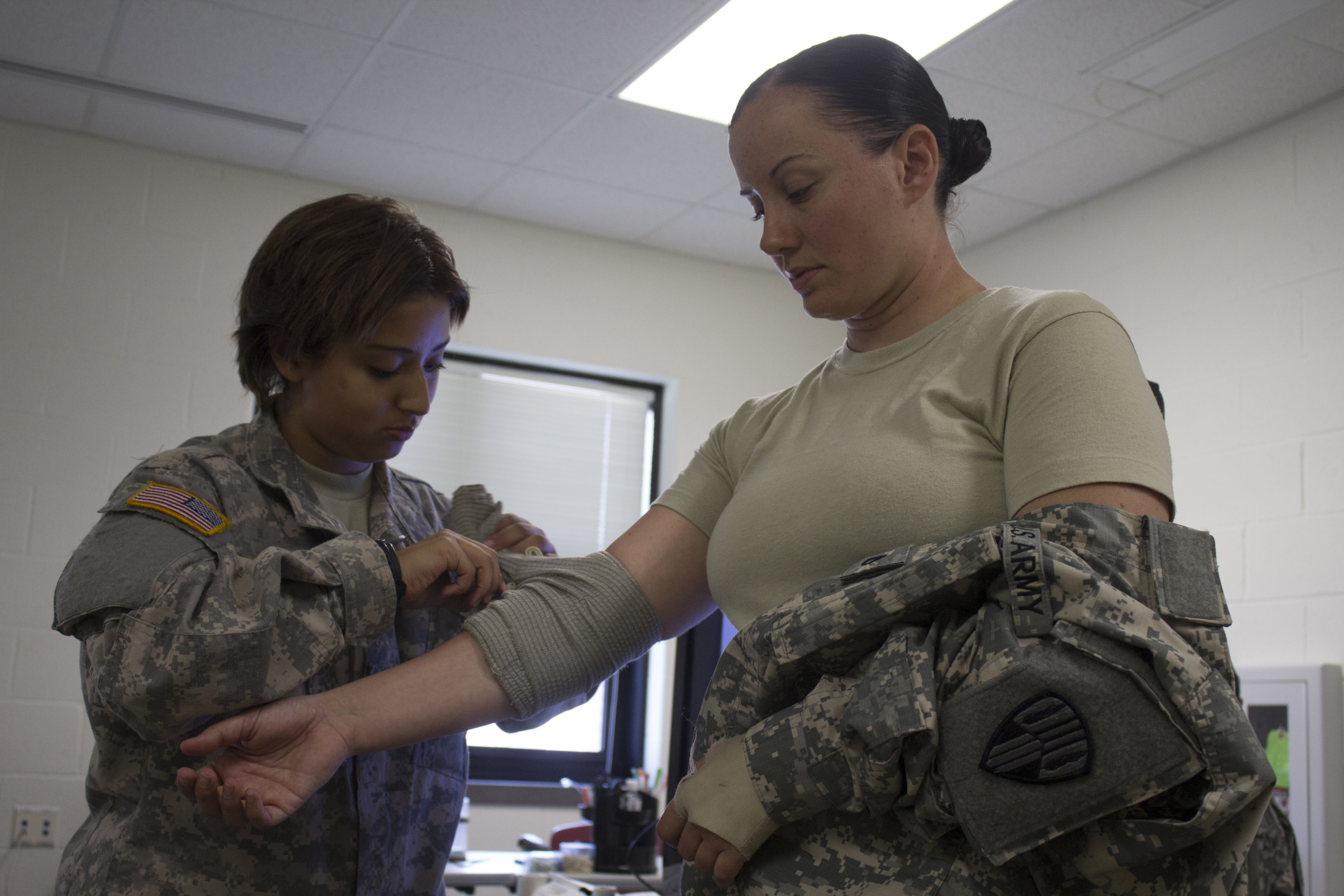 New York National Guard Pfc. Debbie Vasquez - Amaro and Pfc. Hana Afridonidze from the 369th Sustainment Brigade demonstrates how to properly apply an Israeli Emergency Bandage during a Combat Lifesaver course at Fort Drum, N.Y., Aug. 18, 2015. (New York Army National Guard photo by Sgt. Cesar E. Leon/Released) Unit: New York National Guard